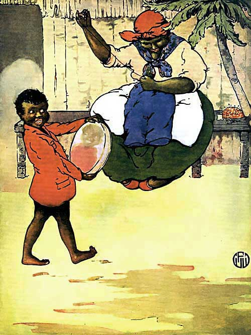 "And Black Mumbo made him a beautiful little Red Coat, and a pair of beautiful little Blue Trousers."